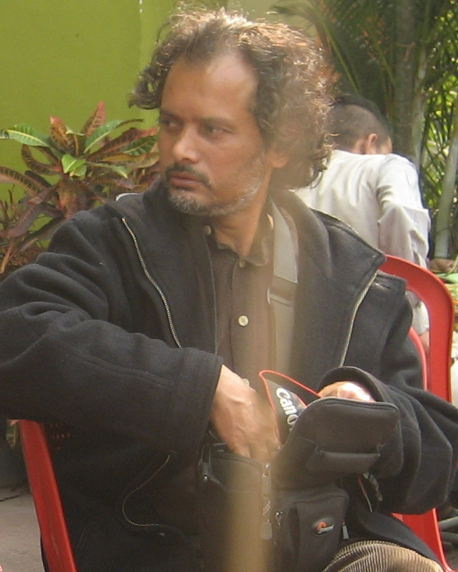 Nepali Theater Artist and Director Sunil Pokharel during a theater festival in Barahampore, India in 2009.